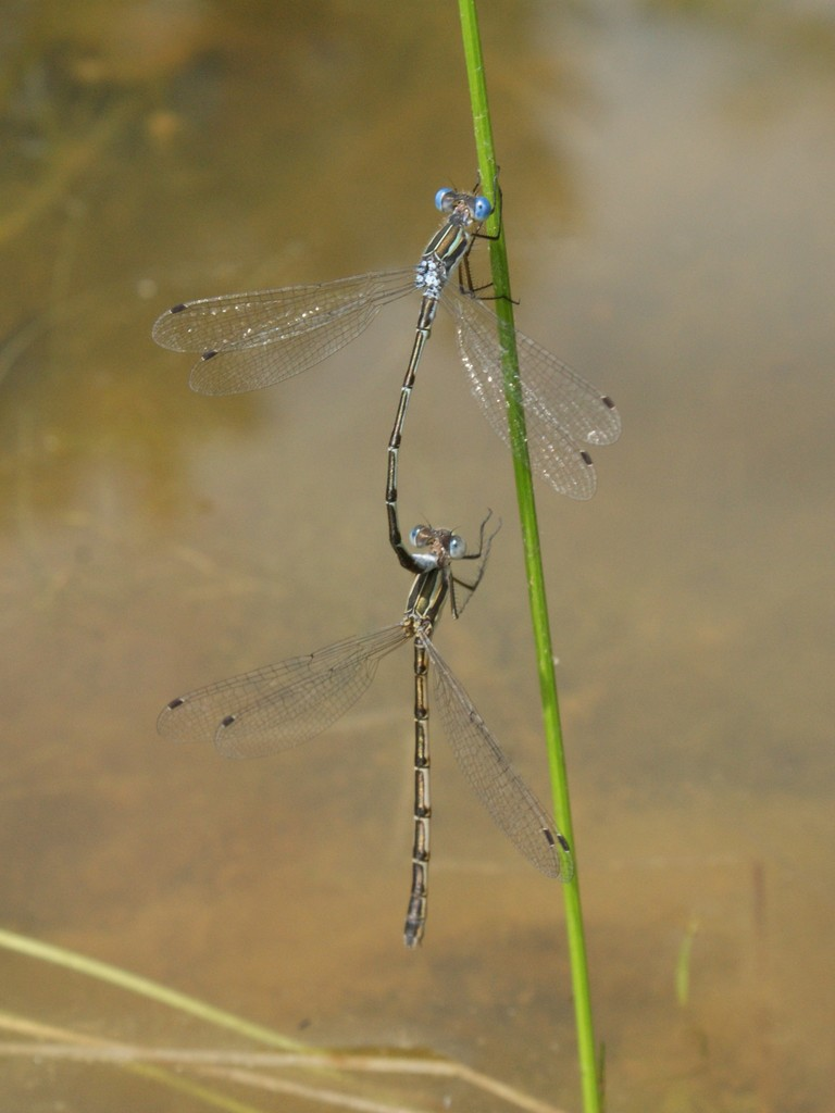 Southern Spreadwing (Lestes australis), 122 Old Edwards Rd, Arnoldsville, GA 30619, USA